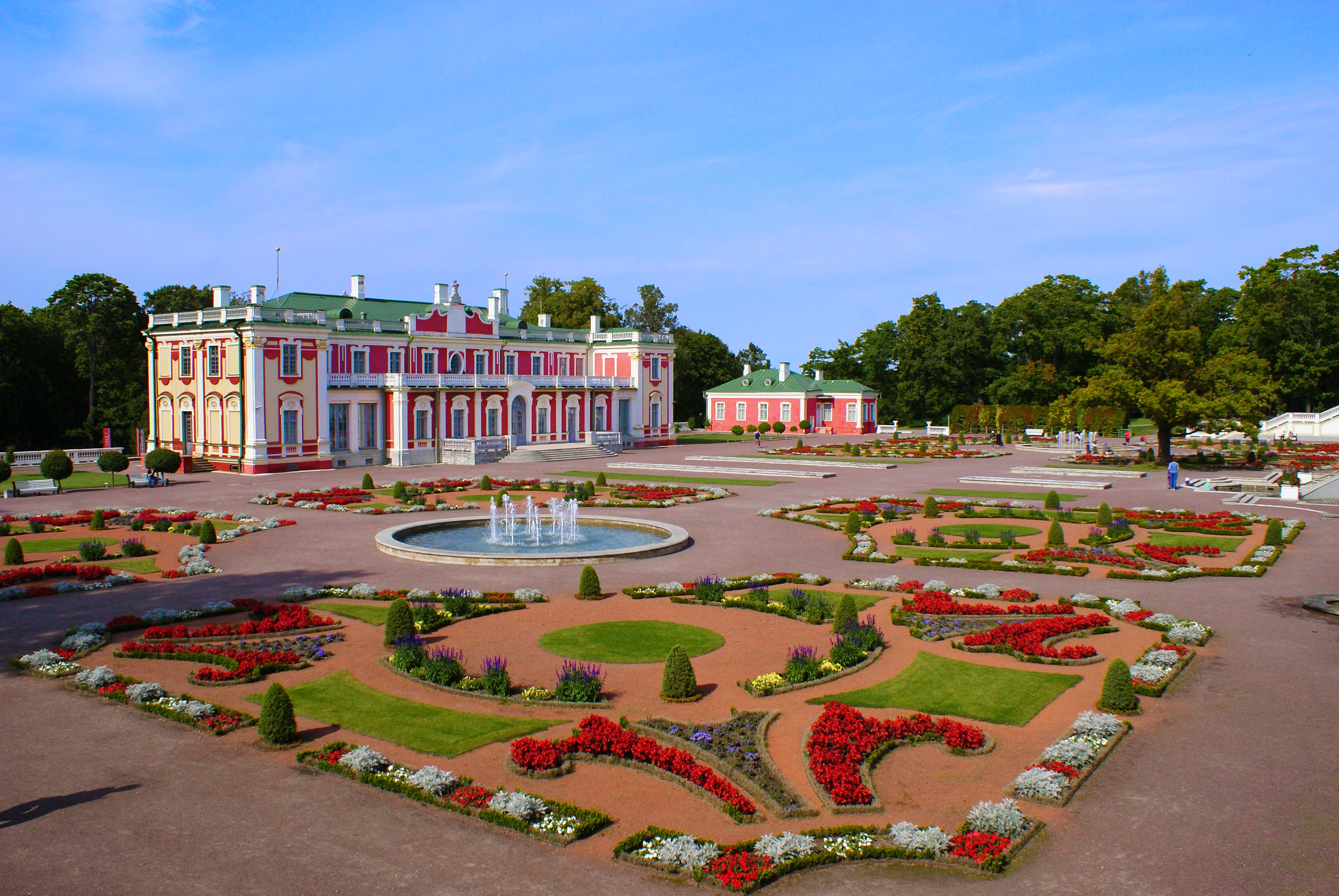 Kadriorg Palace and it's surrounding garden.